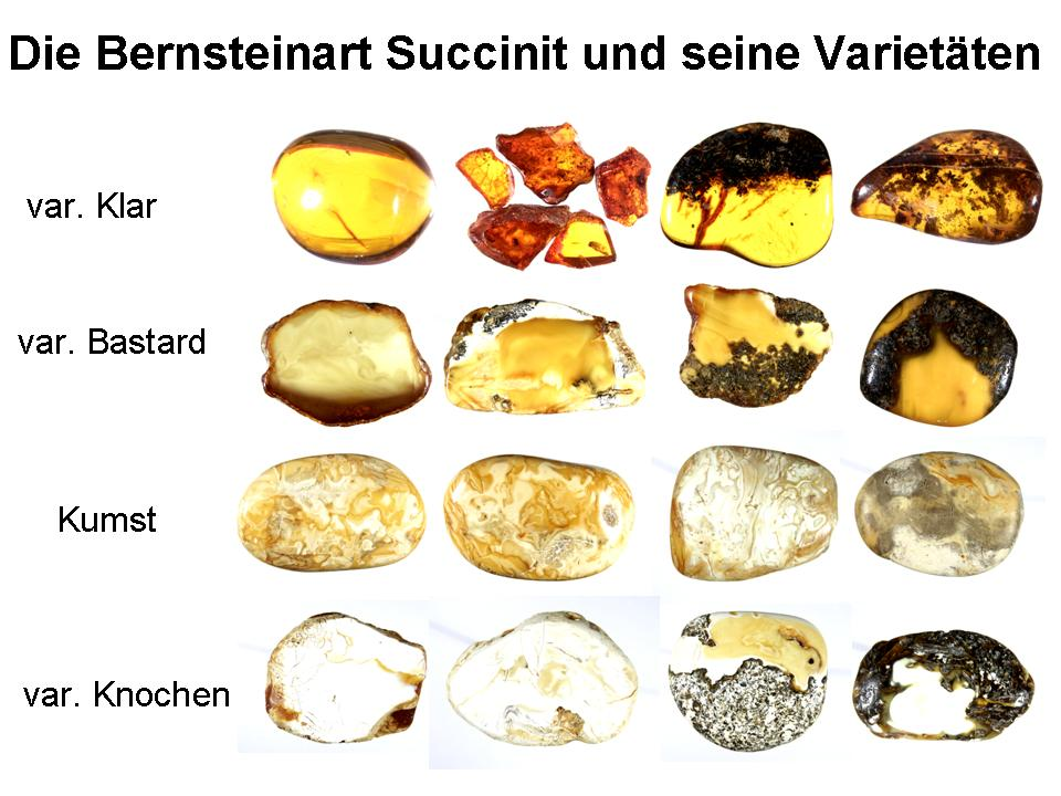 Amber from Bitterfeld, succinite